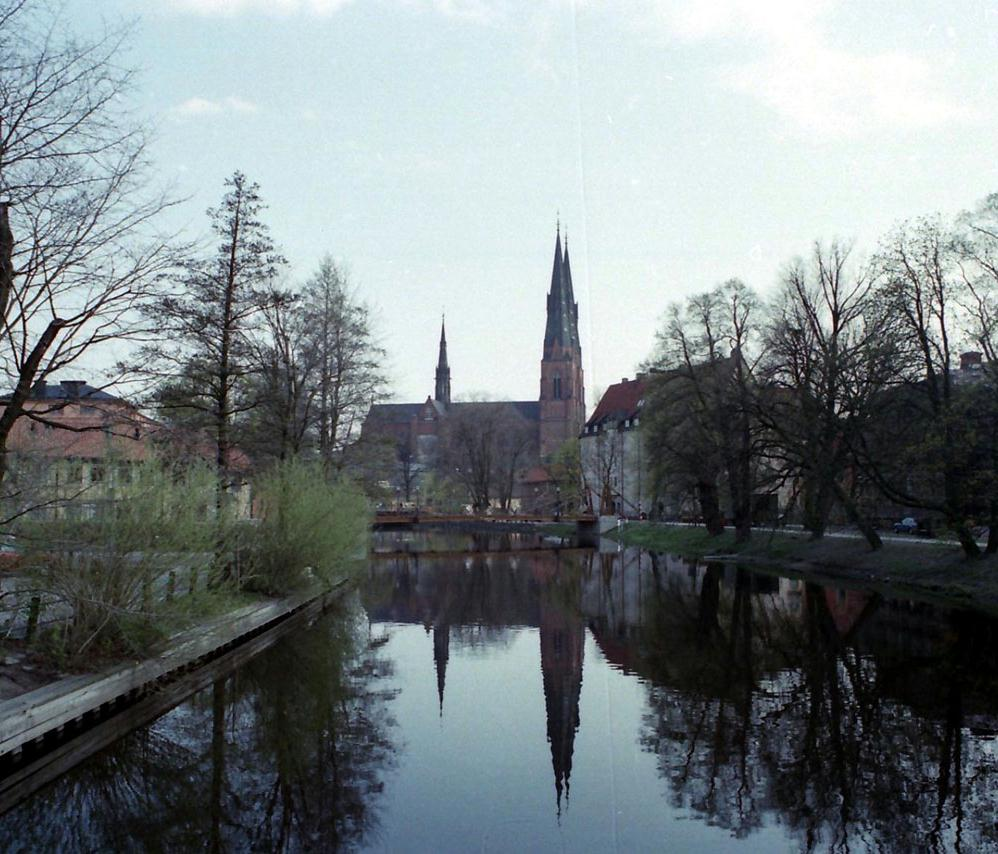 Fyris River running through town with the Cathedral in the distancePlace: Upsala, Sweden